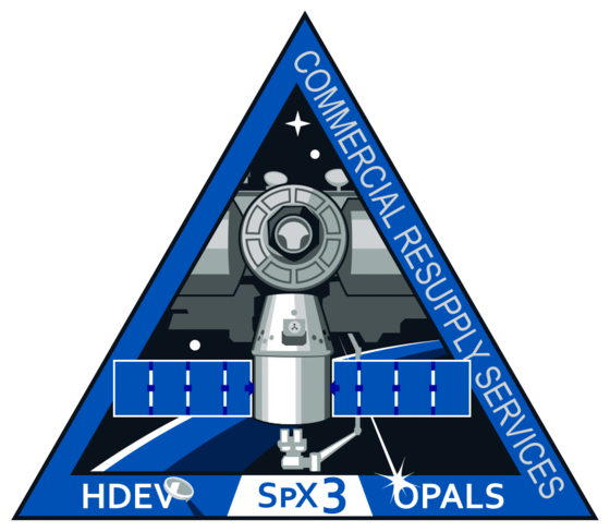 NASA's insignia for SpaceX's Commercial Resupply Services-3 (CRS-3) mission to the International Space Station (SpX-3)